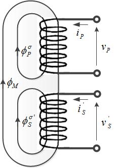 Transformer main & leakage inductances